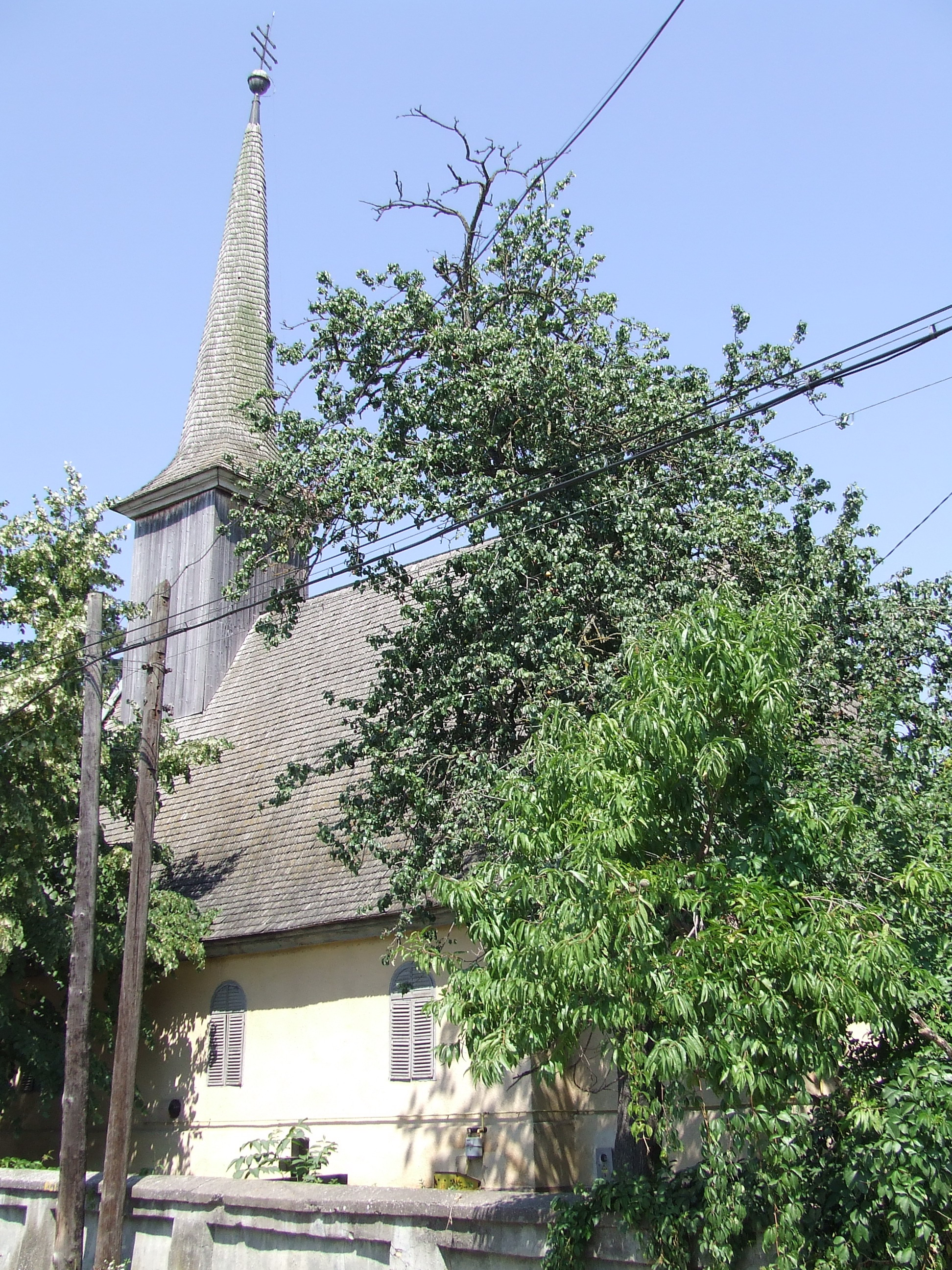 wooden Greek Catholic church in Ulmeni, Maramureş county, transferred in 1895 from Şomcuta Mare